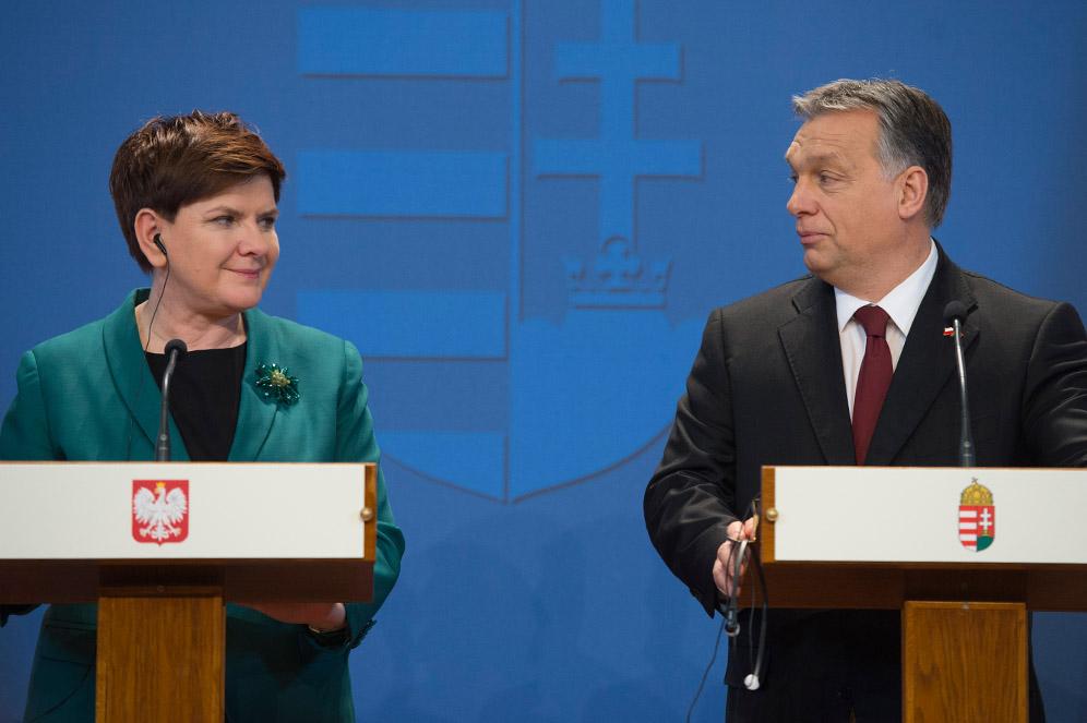 Polish Prime Minister Beata Szydło's official visit to Hungary on 8 February 2016.